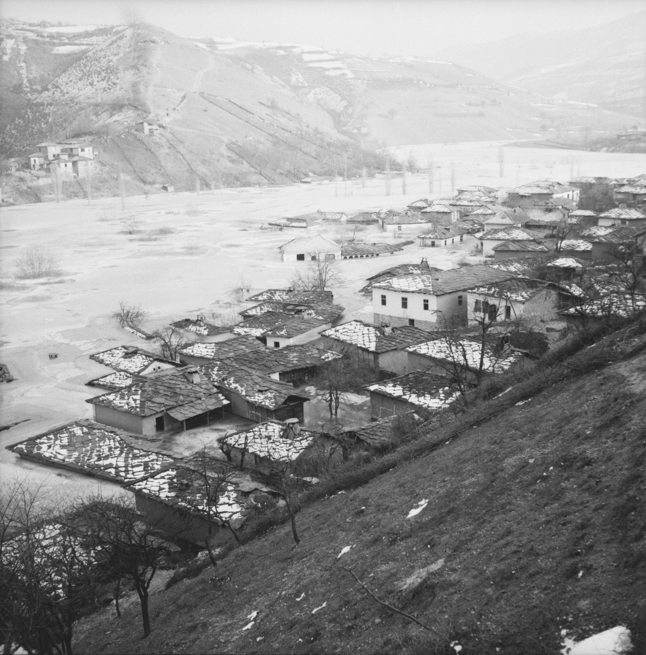 The village of Zavoj after the Visocica River landslide in 1963. in winter